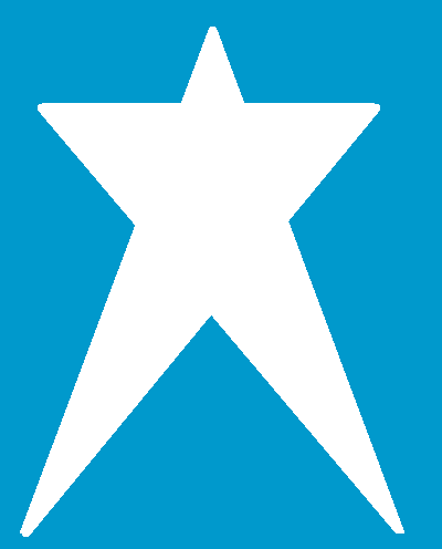 A Bayanic Symbol, or Babism Symbol